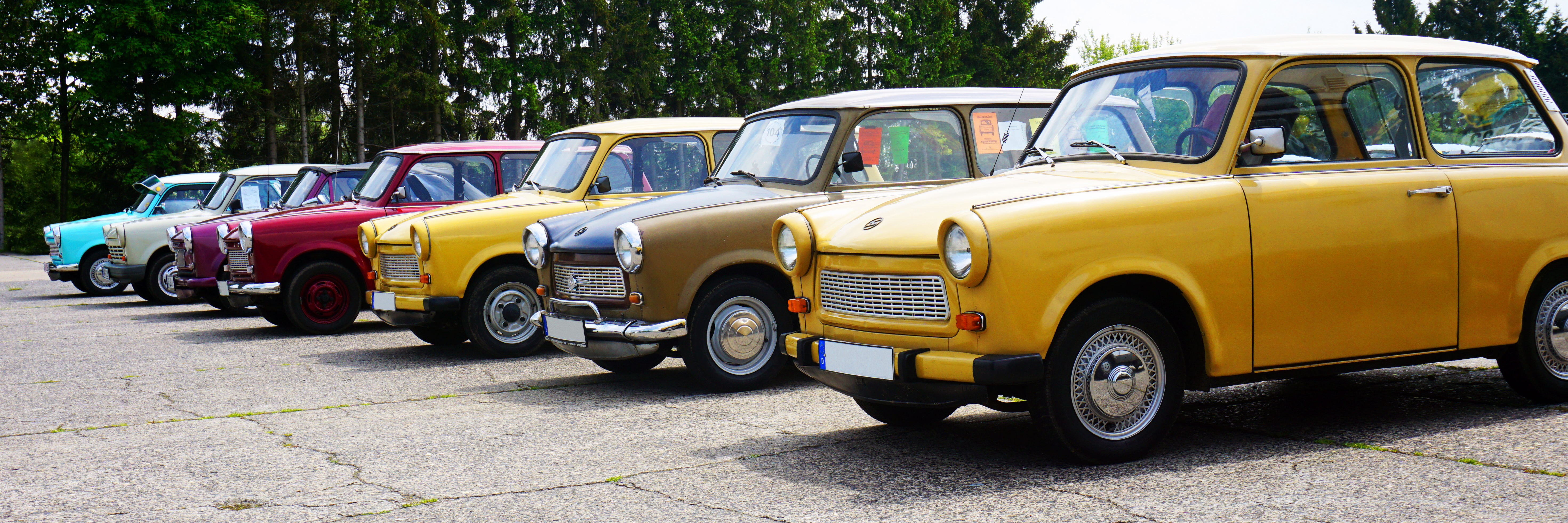 Several Trabant cars of different models in a line.